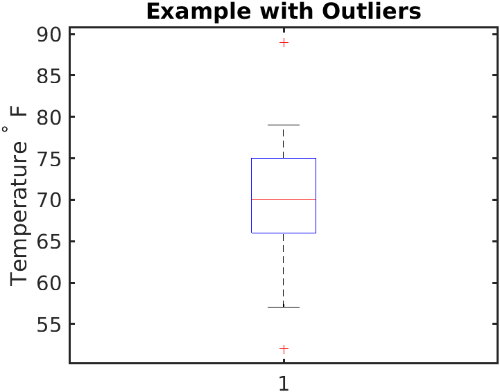 The generated boxplot of our example on the left with outliers